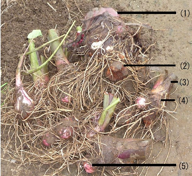 Excavated satoimo (Japanese taro) root (Stems have been cut before excavation): (1) Remaining stem from parent or seed satoimo, (2) Parent or seed satoimo, (3) Remaining stem from child satoimo, (4) Child satoimo, (5) Grandchild satoimo